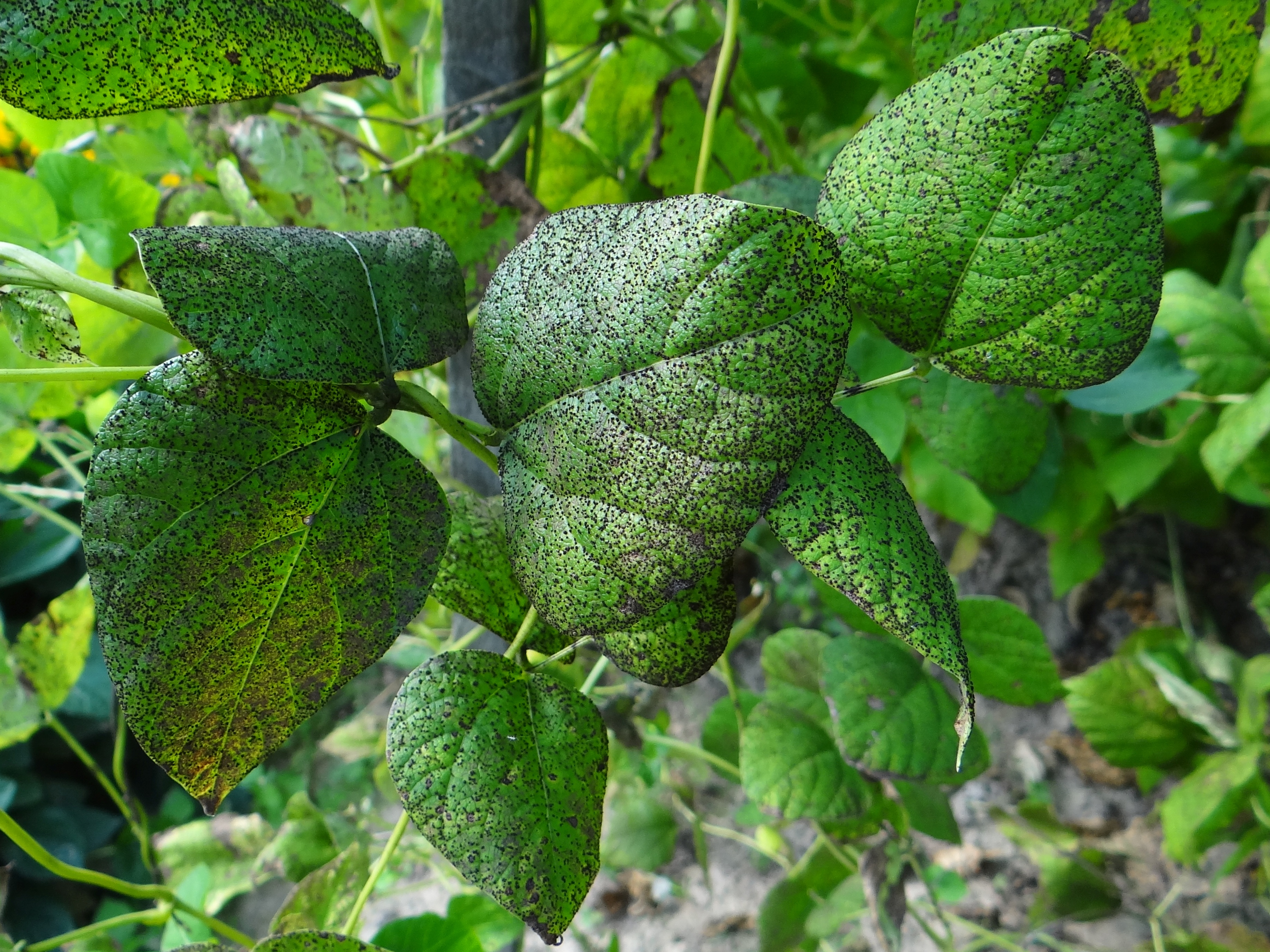 Uromyces appendiculatus on Phaseolus